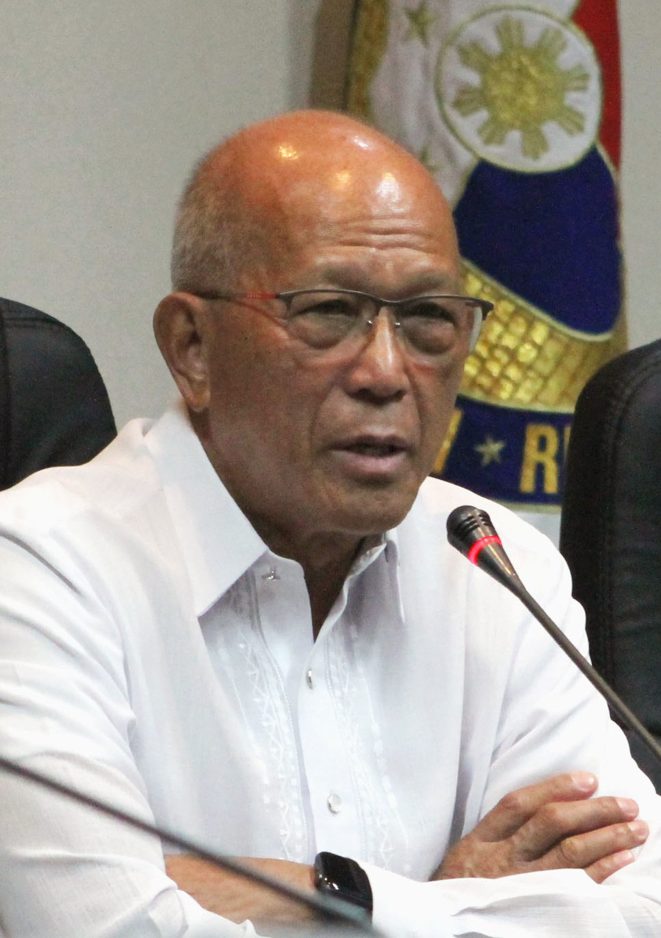 Department of National Defense (DND) Secretary Delfin Lorenzana gives an update on the abduction of 12 Civilian Armed Forces Geographical Unit (CAFGU) members and two soldiers in Sibagat, Agusan Del Sur, during the year-end press conference at the DND conference room in Camp Emilio Aguinaldo, Quezon City on Thursday (December 20, 2018).